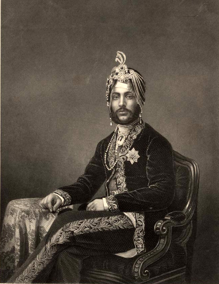 Maharaja Duleep Singh, (1838-1893), Maharajah of the Punjab.